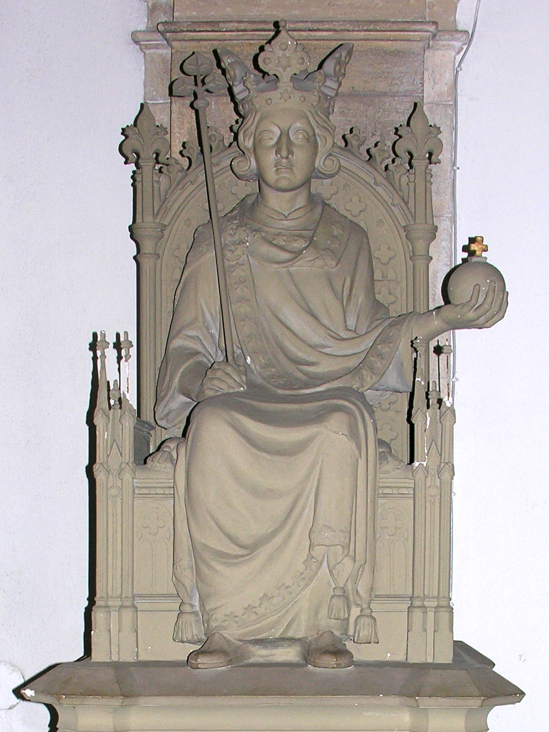 detail of statue of Wenceslaus III of Bohemia in Olomouc. The statue was made by Josef Hladík in 1934 for the exhibition Dvorana Přemyslovců.